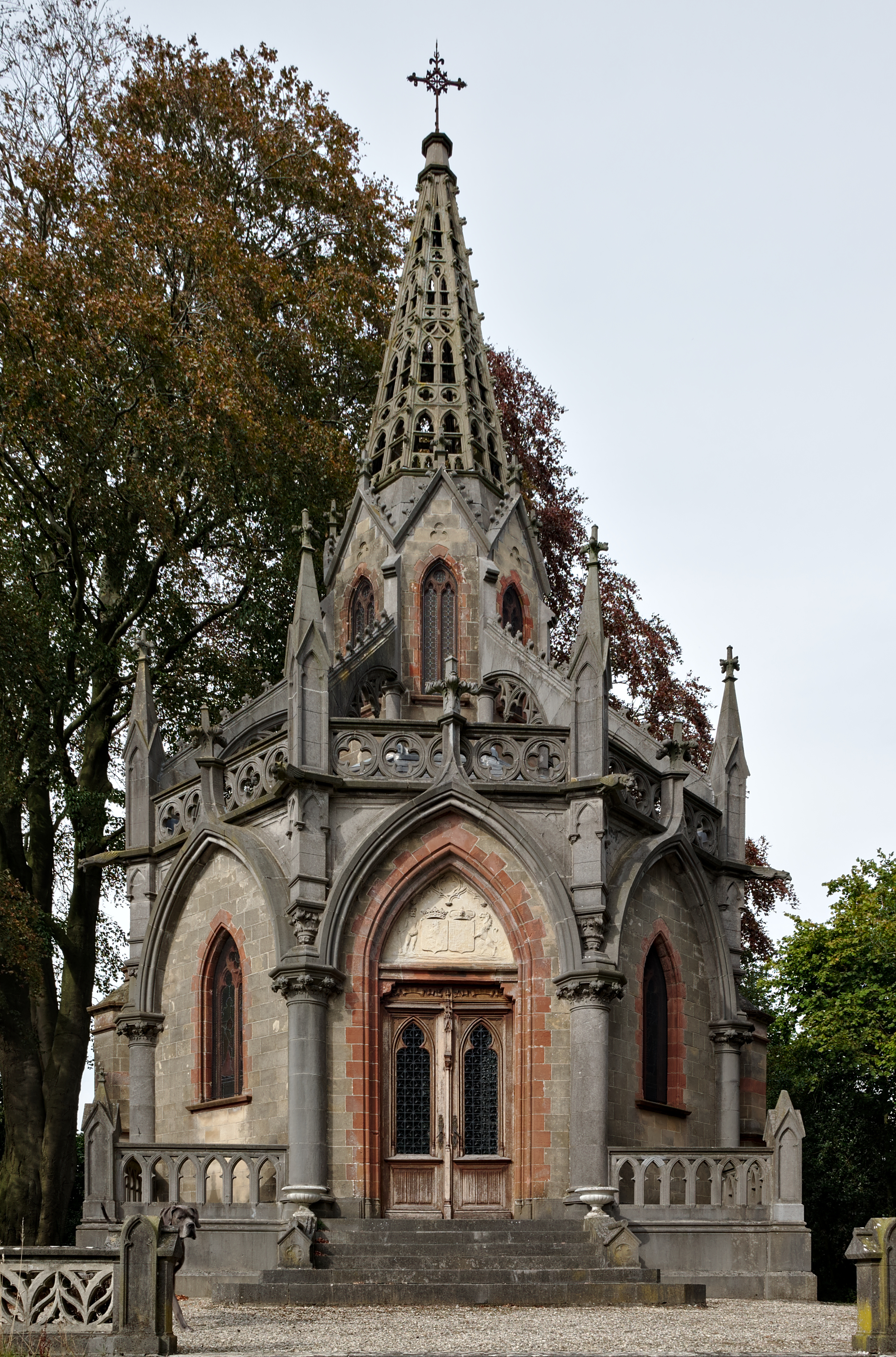 Mausoleum of Oultremont in Houtaing, Belgium